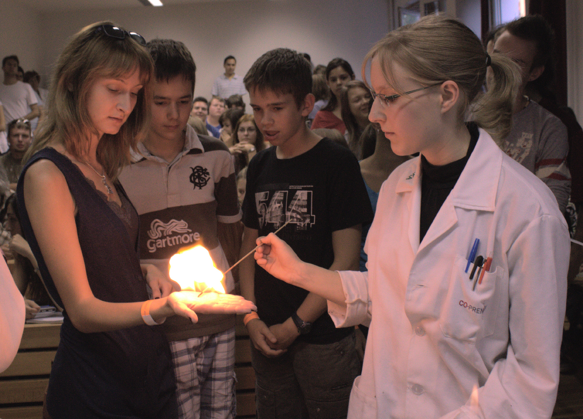 Researchers Night is annual event in Hungary for promoting high education. This time the Universities of the country present their activity to the public with interesting lectures and interactive programs.